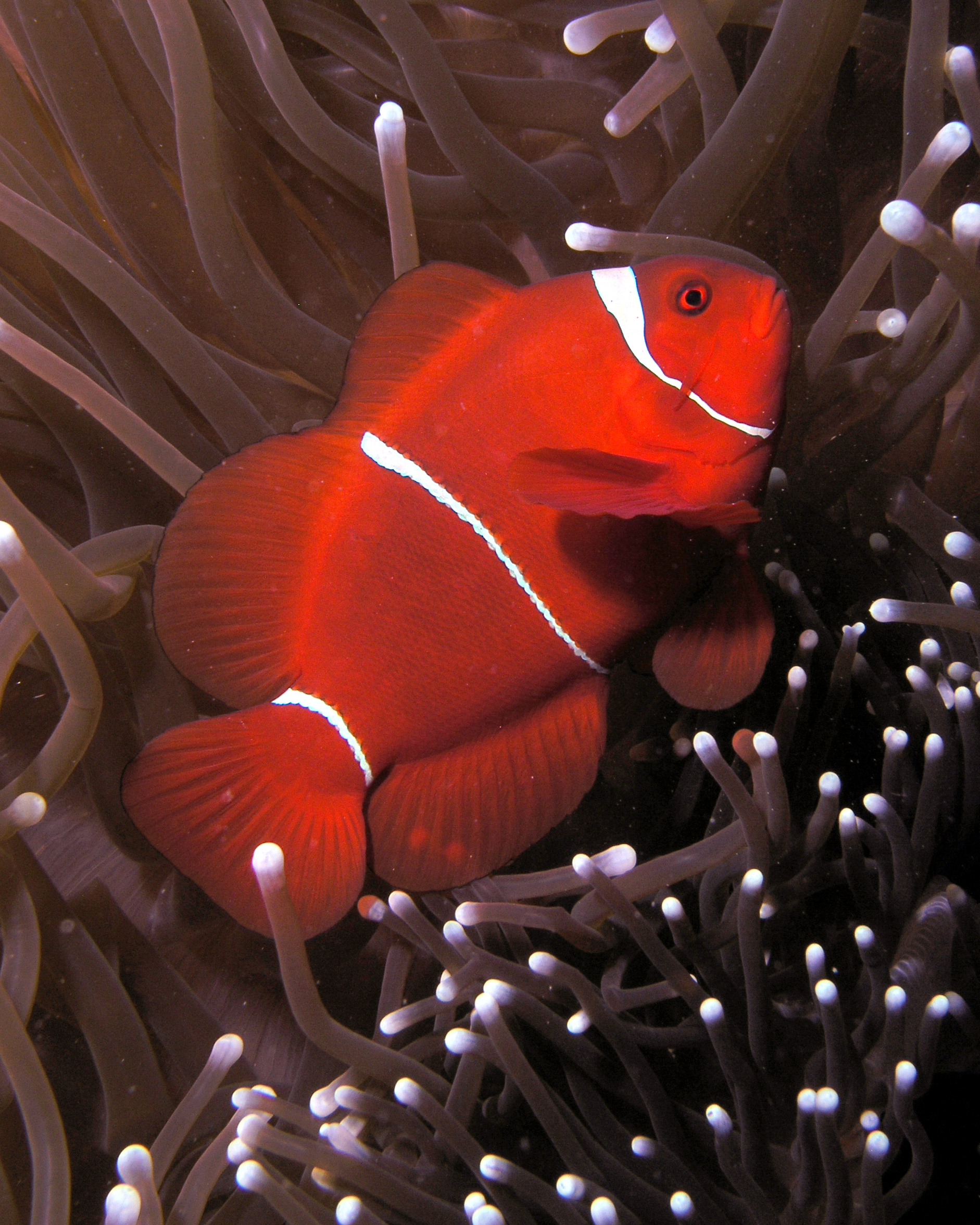 Premnas biaculeatus (Maroon or spinecheek anemonefish)in its natural environment. This is most likely the larger and darker female. Males are smaller and brighter orange.